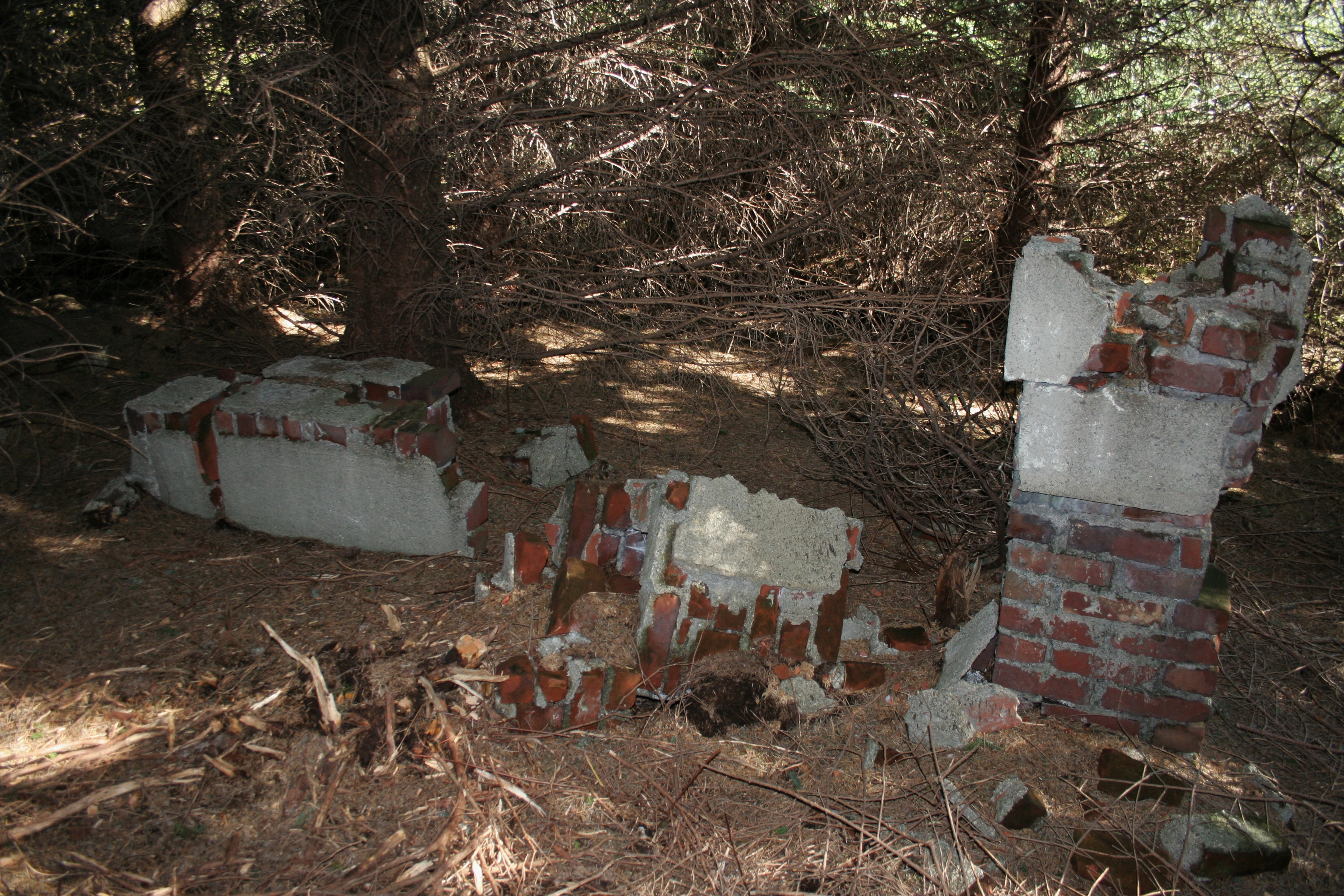 What remains of the Prisoner of War camp at Horebotn, Sotra island, Norway. This might be a chimney, but is more likely a corner or a support for one of the barracks that was built here. This was a camp built temporarily to house prisoners (mainly people from eastern Europe) that was forced to build the road leading up to and the "Fjell Fortress" itself. Later, a larger camp was built in a different pace.